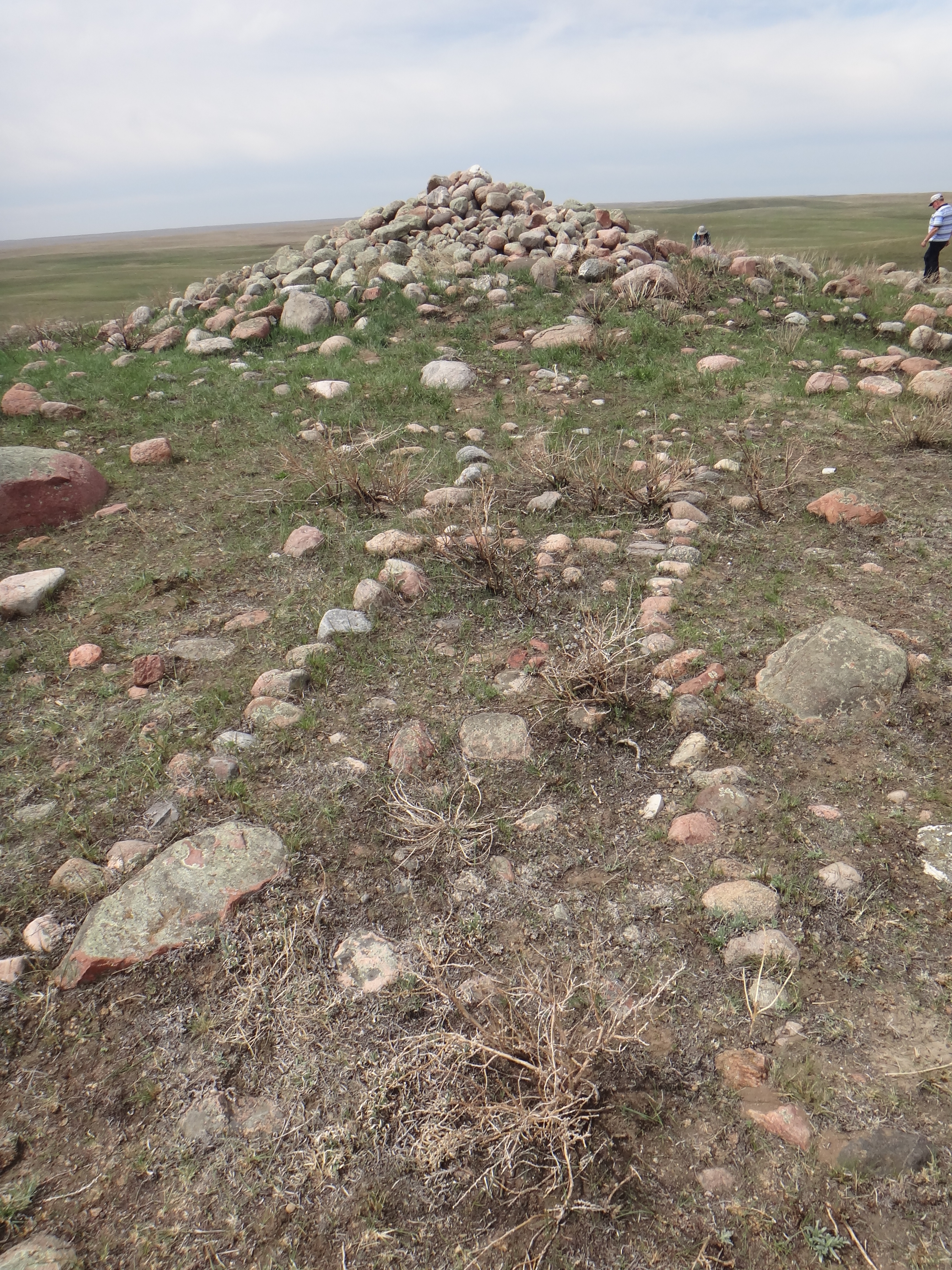 British Block Cairn with Napi Effigy from the Suffield Block, Alberta